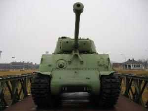 Royal Military College of Canada Bailey bridge and Sherman tank